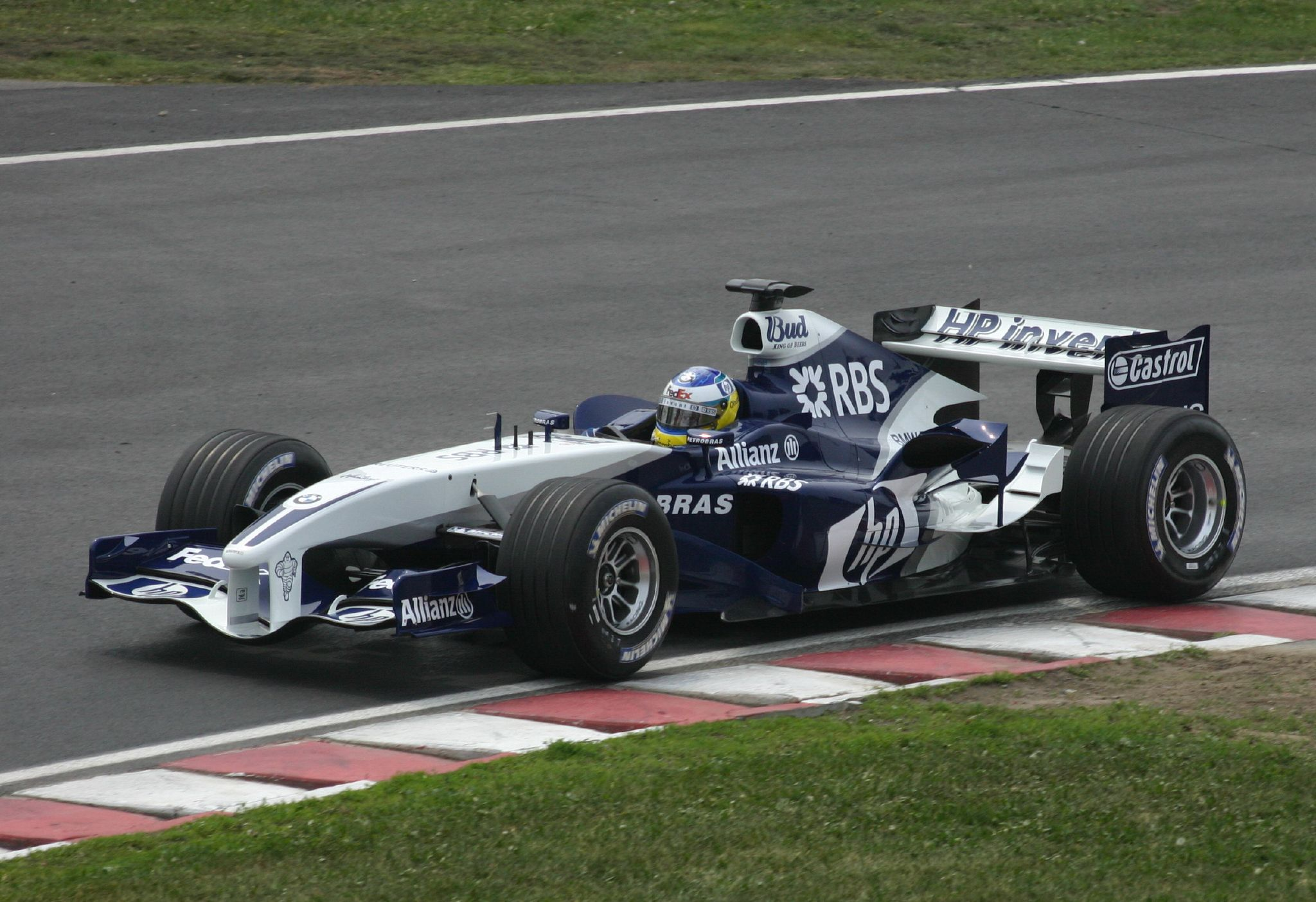 Nick Heidfeld at the Canadian Grand Prix 2005 in Montreal